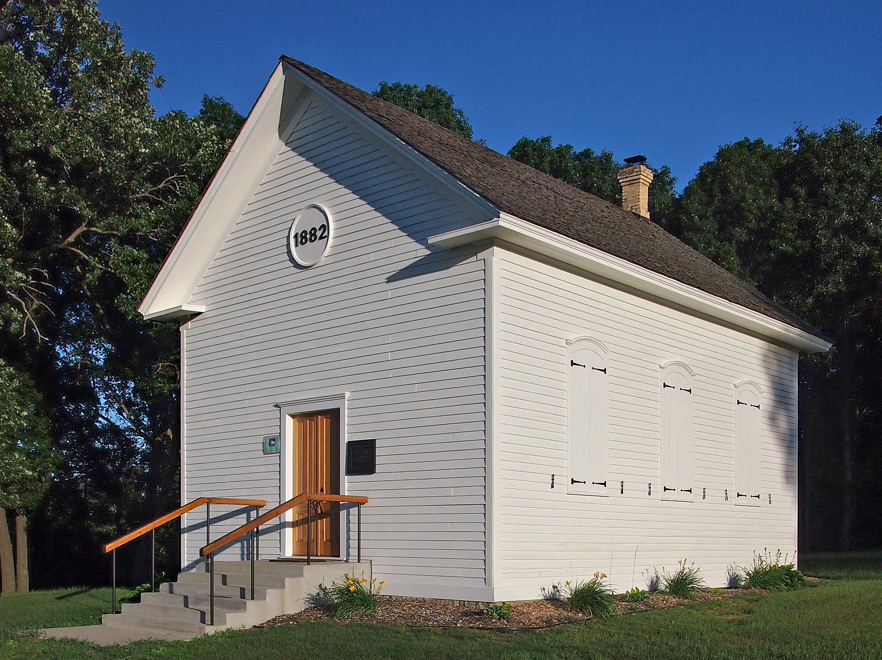 St. John's Lutheran Church, Bradford Township, Minnesota, USA. Viewed from the northwest.